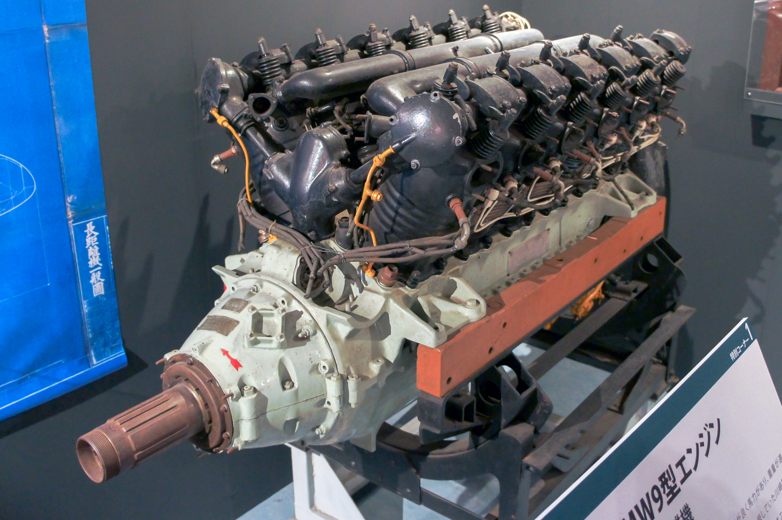 Kawasaki Ha9